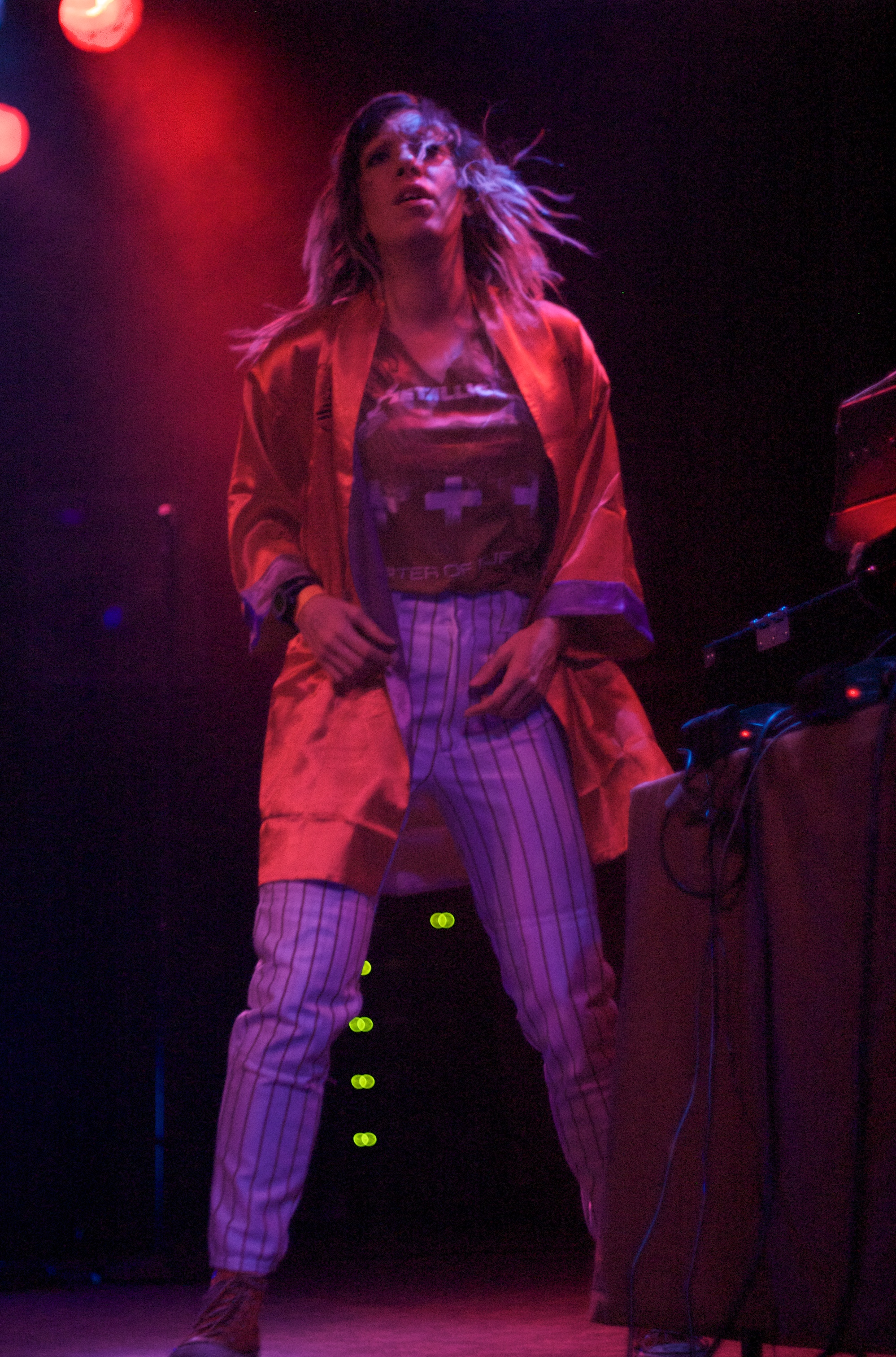 Lady Starlight performing as the opening act of Semi Precious Weapons` Dirty Showbiz Tour.